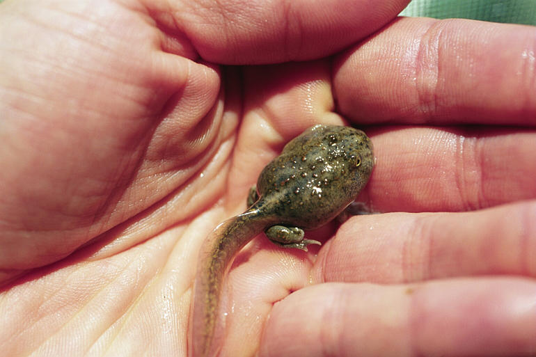 Spea hammondii